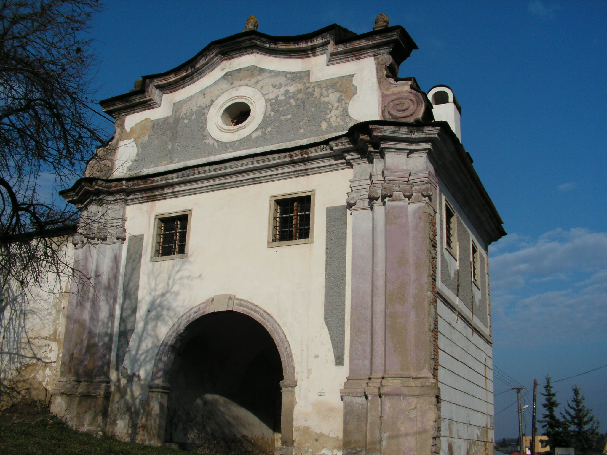 Banská Štiavnica - Town Gate called "Piargska"